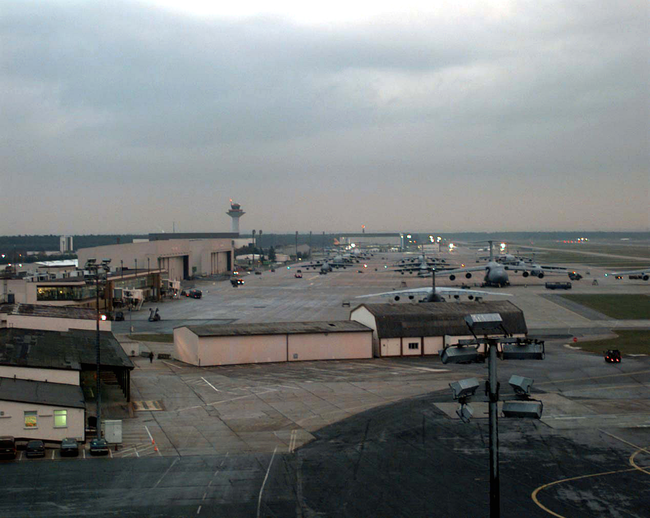 Rhein Main Air Base of the United States Air Force in GermanyRhein Main Air Base, Frankfurt am Main, Germany is one of the staging areas for troops and supplies headed to Bosnia-Herzegovina on 12 December, 1995. The moth-balled base was reactivated to support NATO operations in the area.